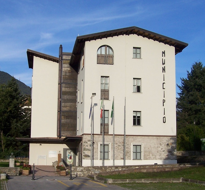 Town hall. Corteno Golgi, Val Camonica